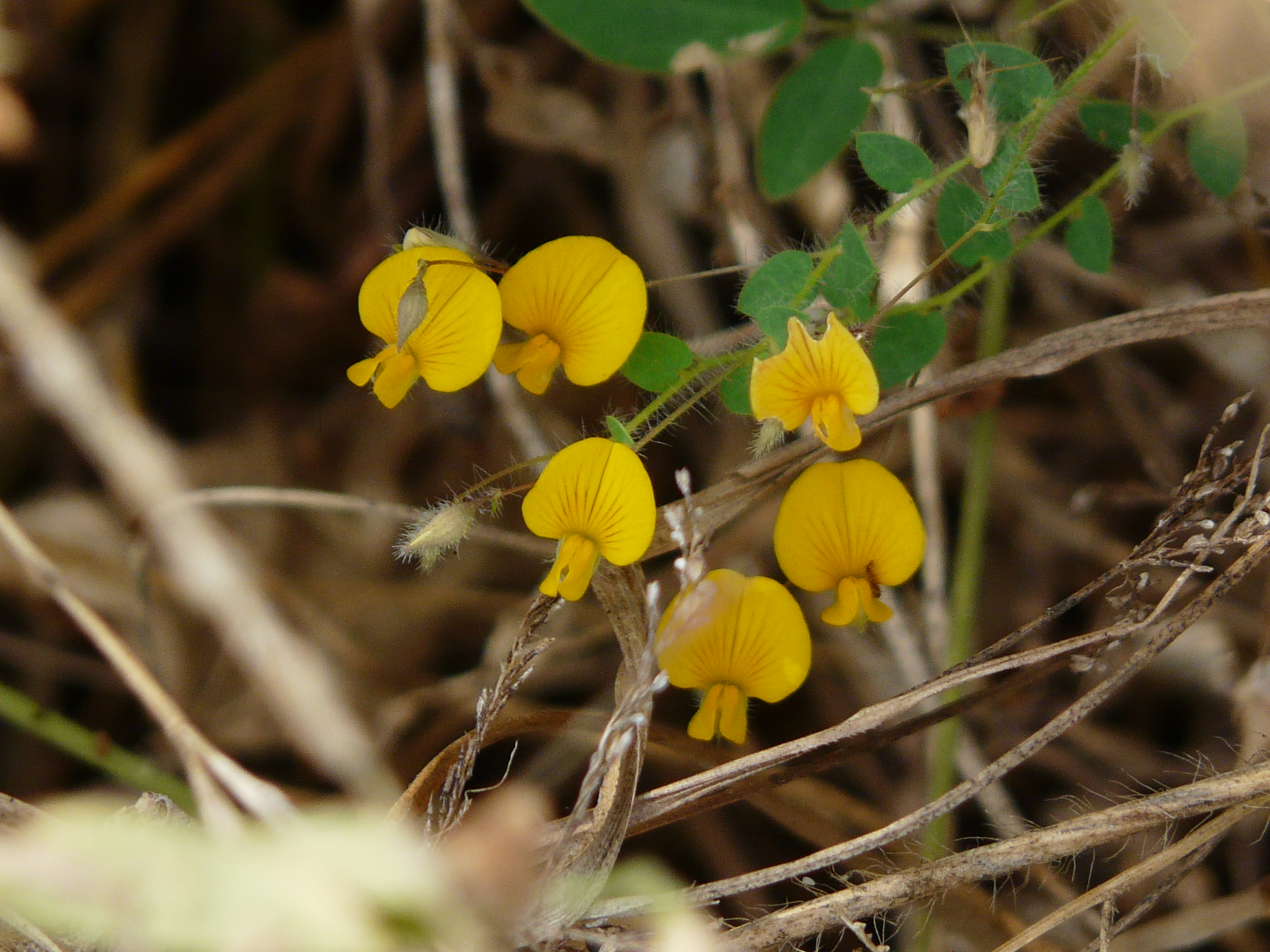 Fabaceae (pea, or legume family) » Crotalaria filipes kroh-tuh-LAR-ee-uh -- Greek krotalos; refers to sound, dried pods make when shaken fil-EE-pays -- meaning, thread-like stalks commonly known as: creeping hemp • Marathi: फटफटी phatphati Endemic to: Sahyadri (Western Ghats, India) References: Common Indian Wild Flowers by Isaac Kehimkar • Further Flowers of Sahyadri by Shrikant Ingalhalikar • Sahyadri Database